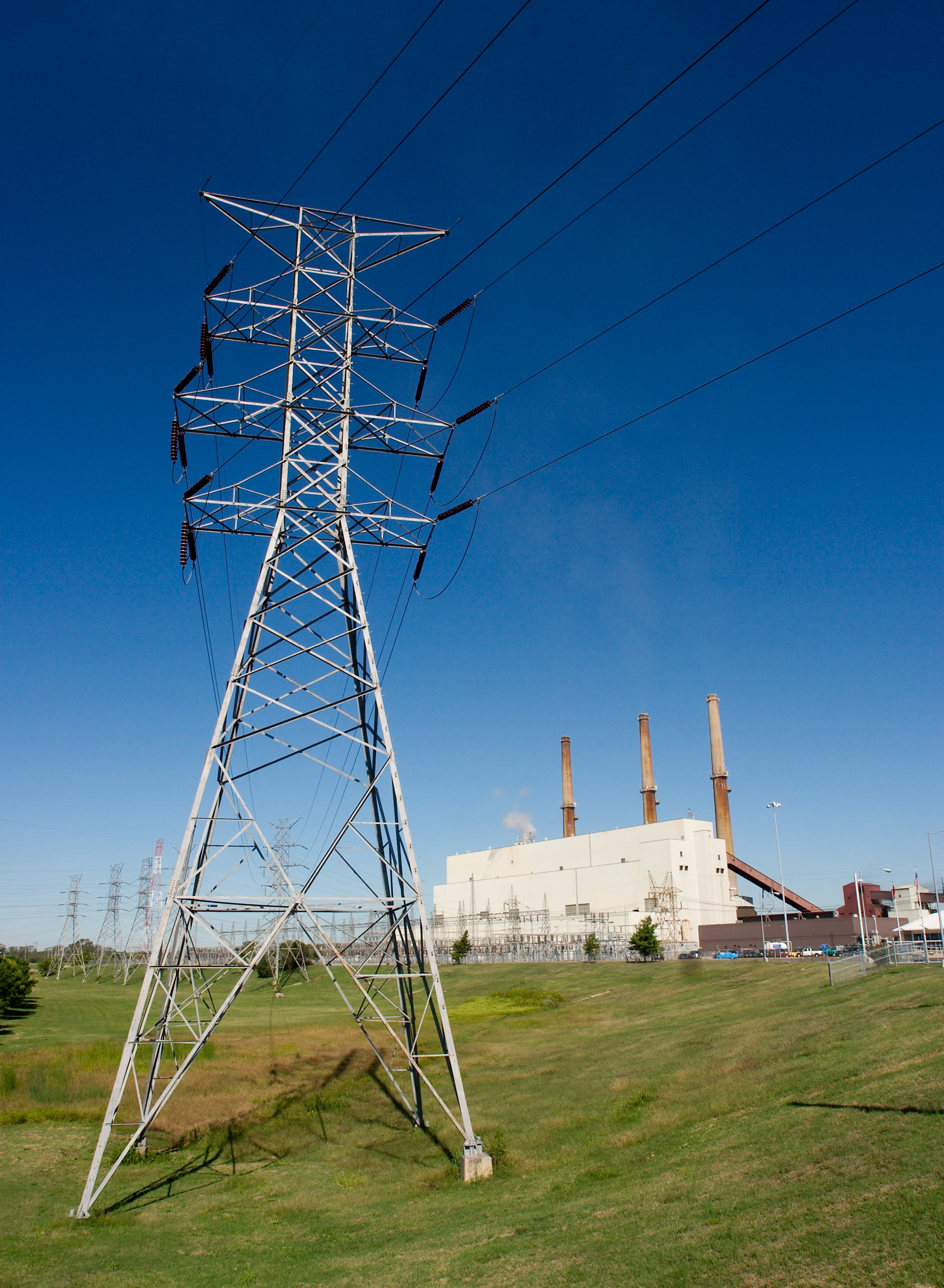 Allen Fossil Plant